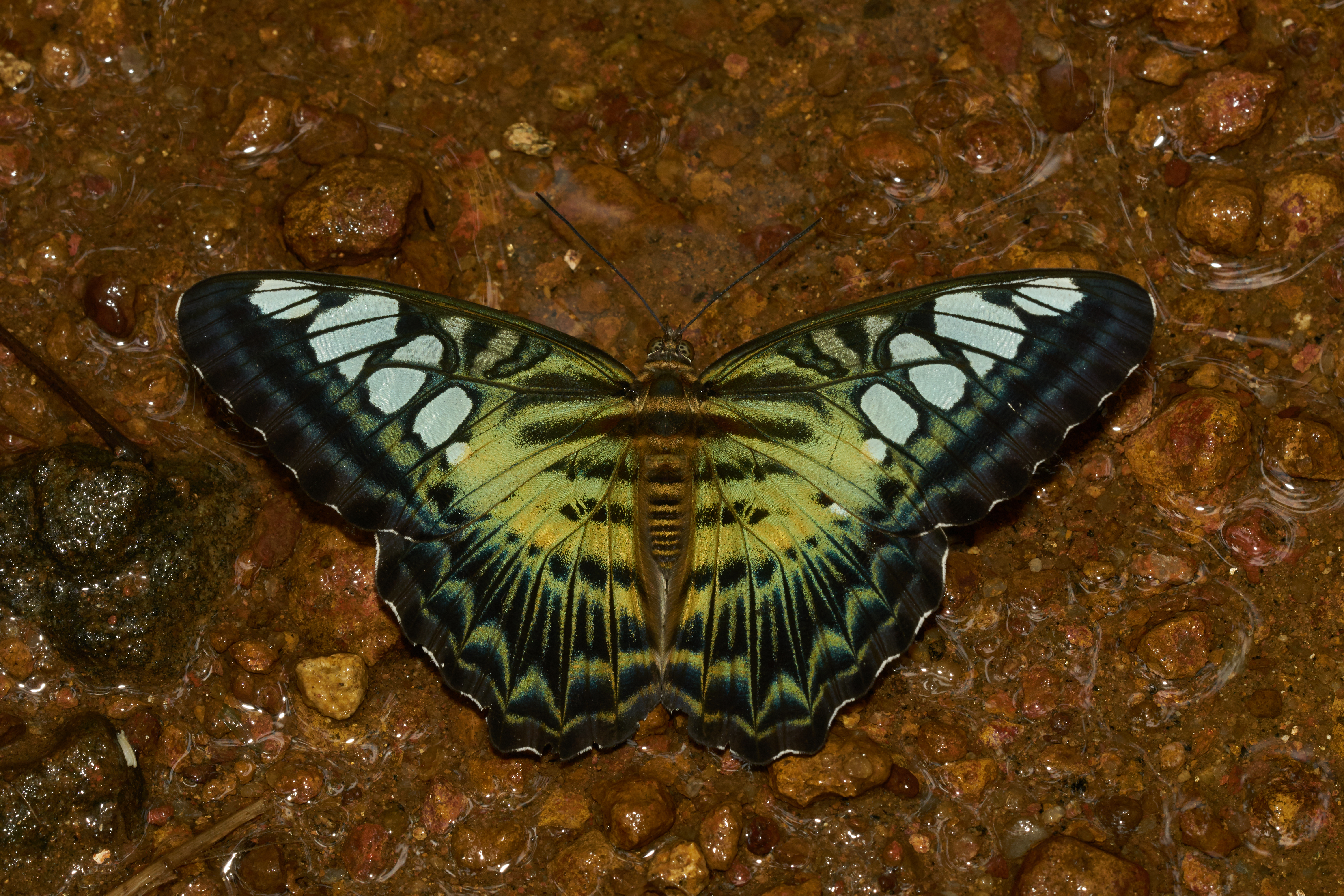 Parthenos sylvia (Clipper) puddling adventurously from a forest stream.